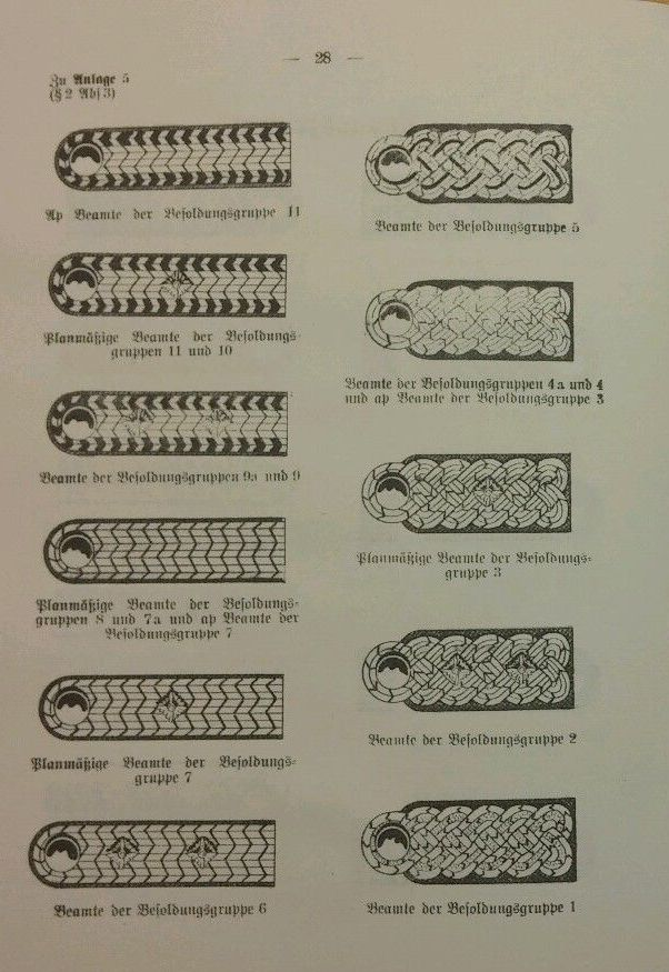 Uniform regulations for the Deutsche Reichsbahn 1938